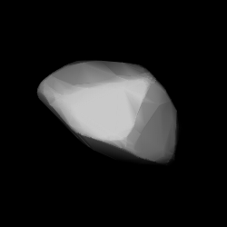 3D convex shape model of 1496 Turku, computed using light curve inversion techniques. J. Hanuš, J. Ďurech, M. Brož, B. D. Warner (June 2011). "A study of asteroid pole-latitude distribution based on an extended set of shape models derived by the lightcurve inversion method". Astronomy and Astrophysics 530: A134. ISSN 0004-6361. arXiv